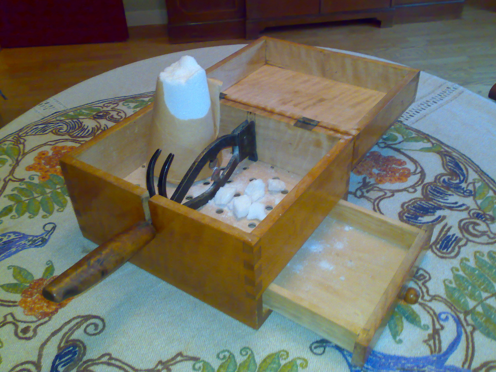 This is a Swedish "sugarloaf box". It is used to contain a sugarloaf and also contains a built-in iron sugar cutter. At the bottom is a drawer which collects grained sugar residue from the cutting of the loaf into lumps.